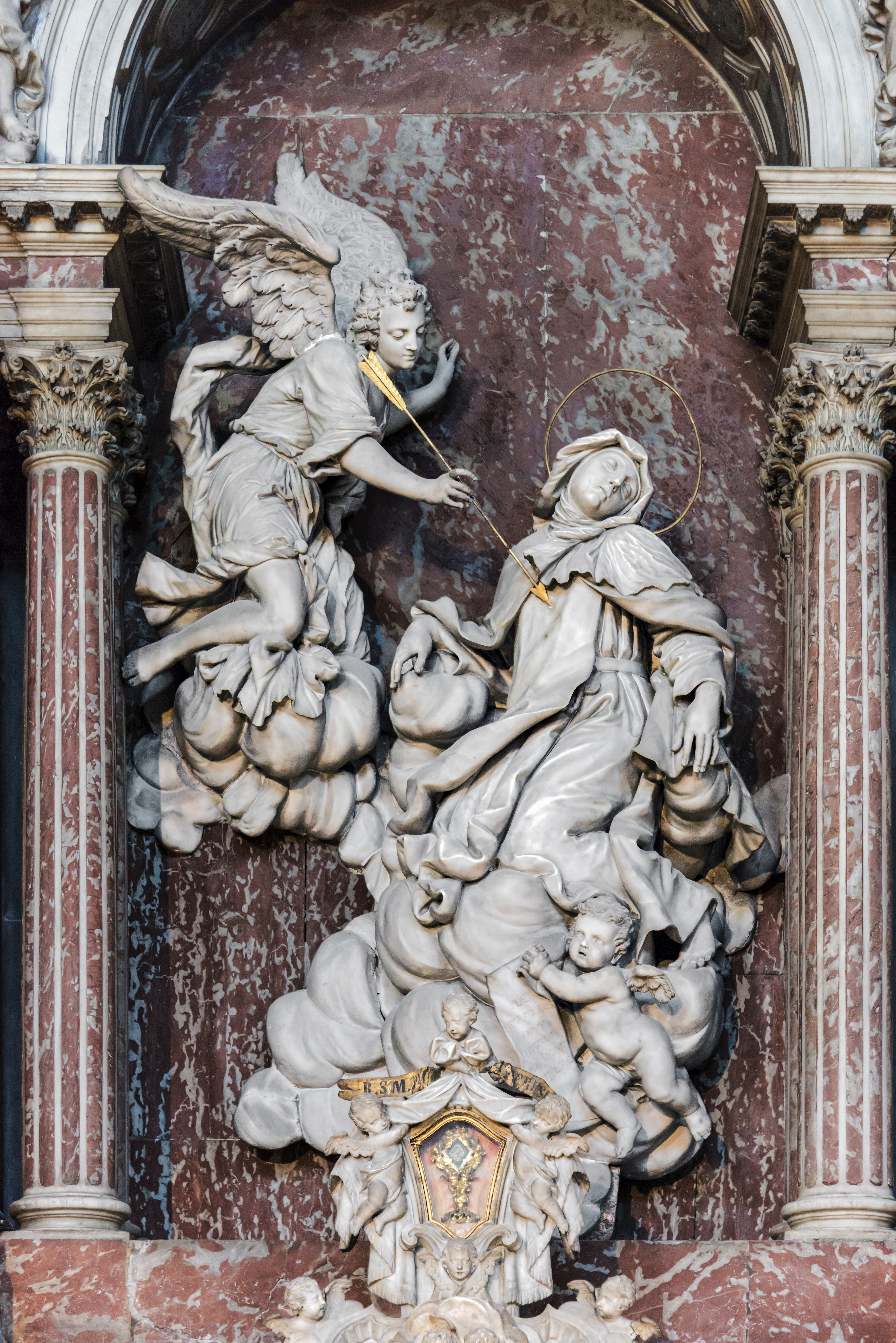 Church Santa Maria degli Scalzi Venice. Chapel Ruzzini - Statue of Ecstasy of St. Teresa of Jesus by Heinrich Meyring (1697)